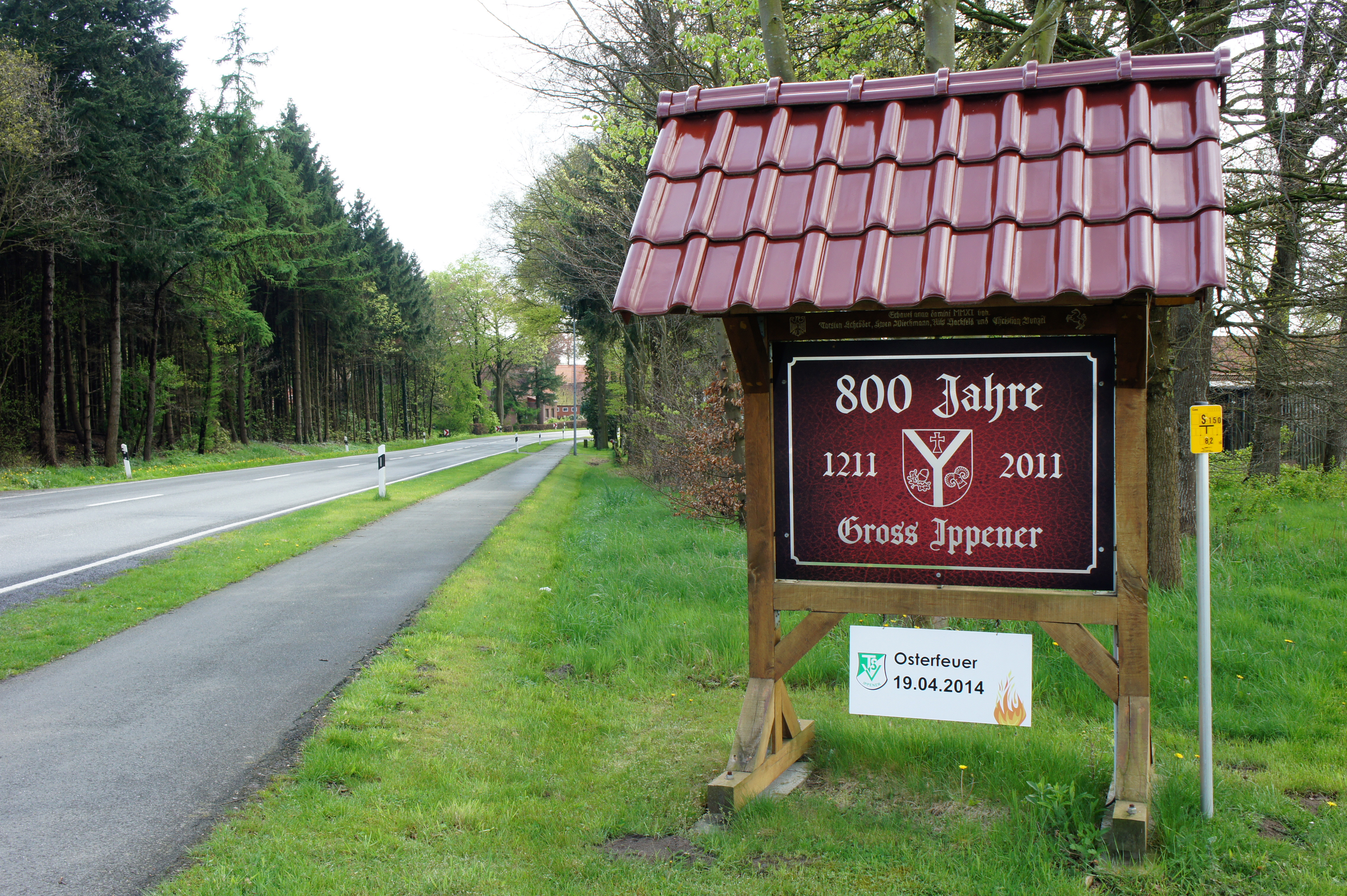 Town entrance of Gross Ippener